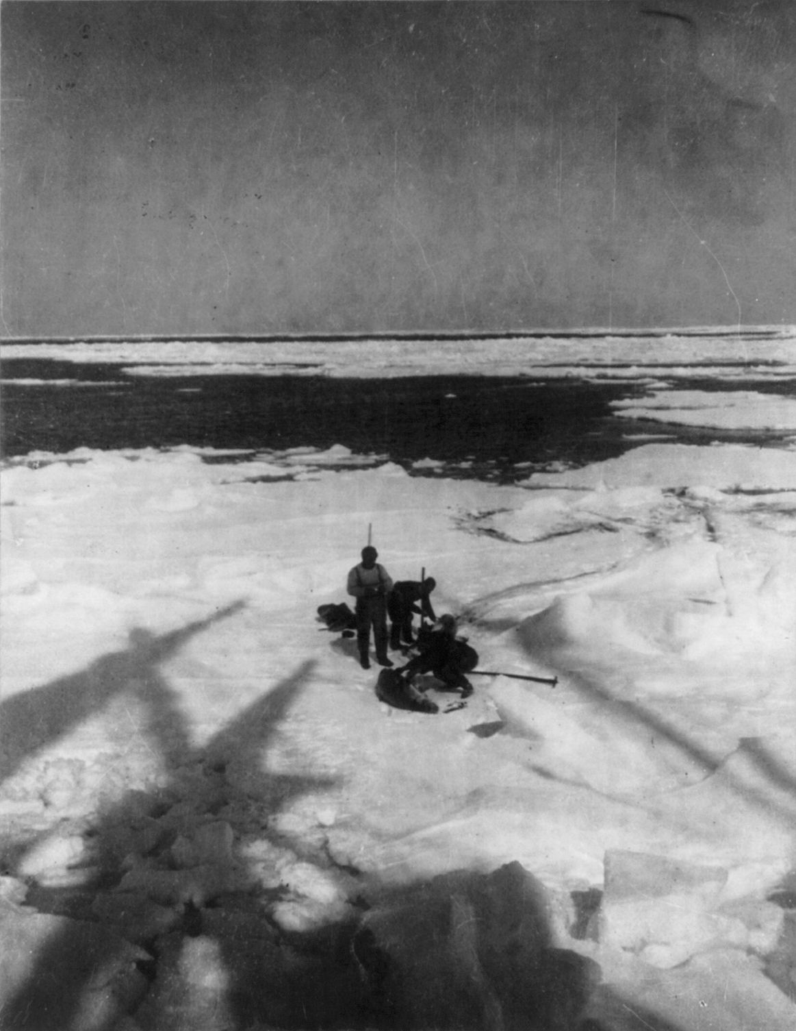 Original caption: “ [Discovery and explorations of the South Pole by Capt. Roald Amundsen and crew, 1910-11]: Members of the expedition capturing seals. ” Reproduction Number: LC-USZ62-70484